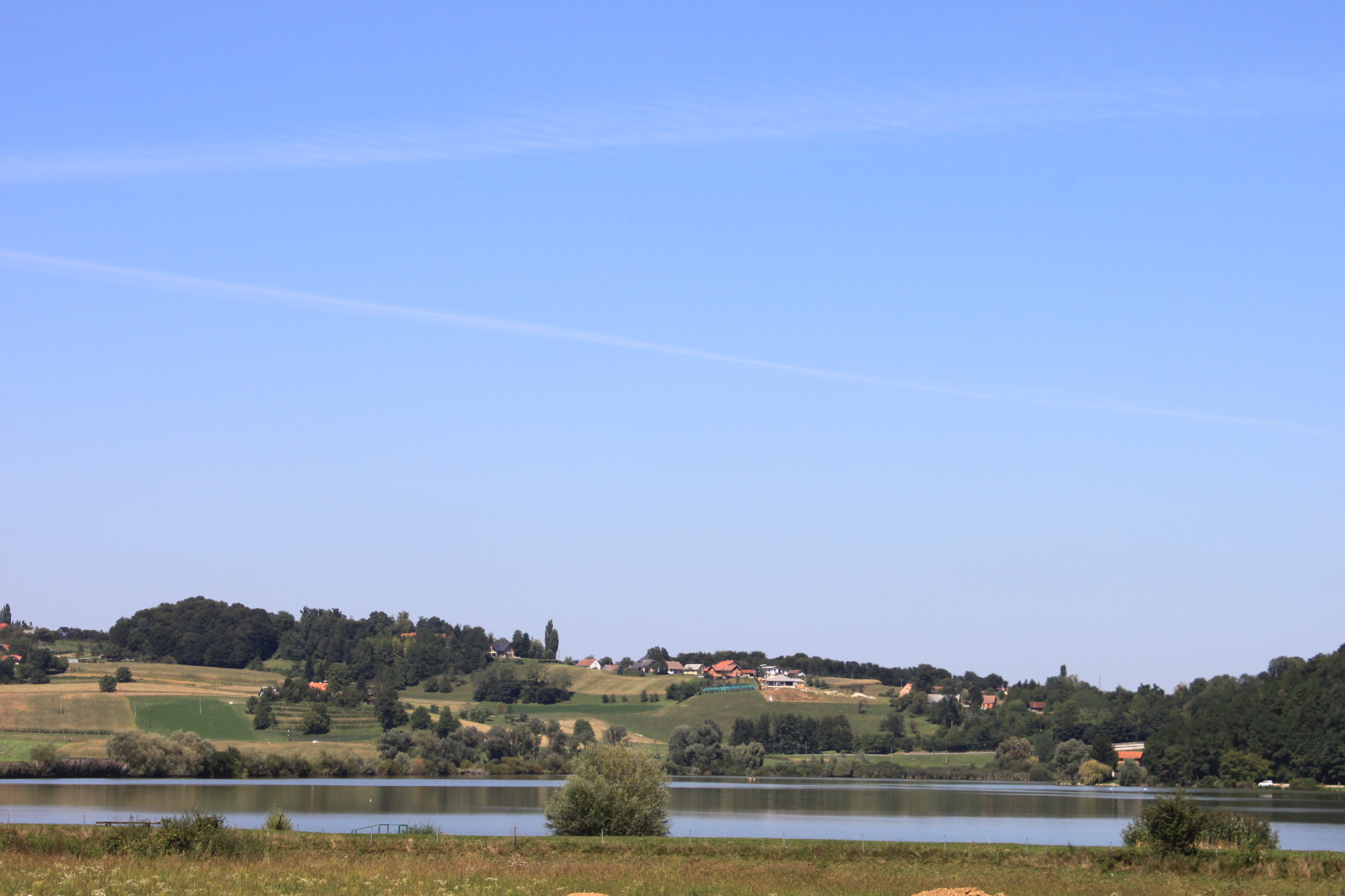 Looking north to Zgornji Porčič / Oberburgstall, district of Heilige Dreifaltigkeit in den Windischen Büheln (Sveta Trojica v Slovenskih Goricah), Slovenia; front of Trojica Reservoir.